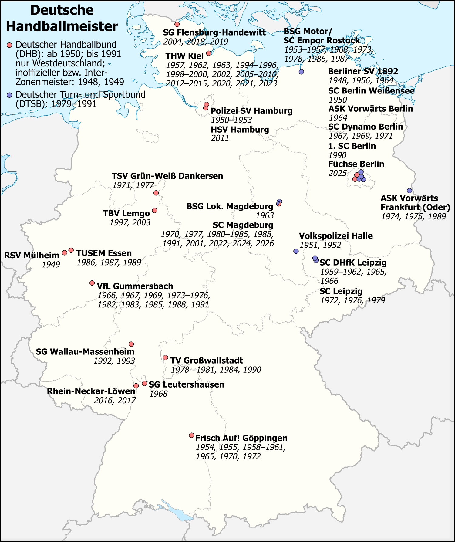 Map of German Handball Champions, starting 1949